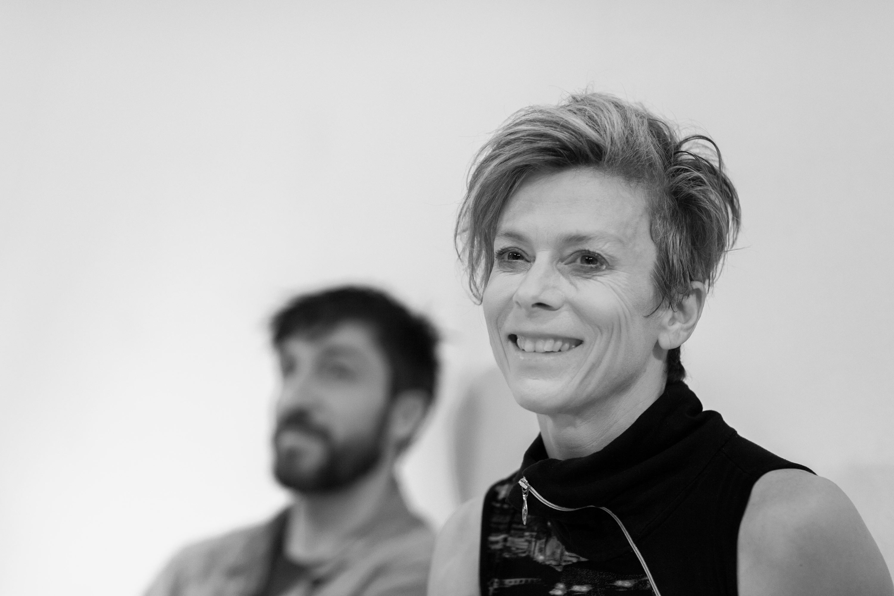 The Canadian dancer Louise Lecavalier at a discussion with the audience in the Tanzzentrum NRW Düsseldorf after the premiere of her piece "So Blue". In the background the french dancer Frédéric Tavernini. December 2012.